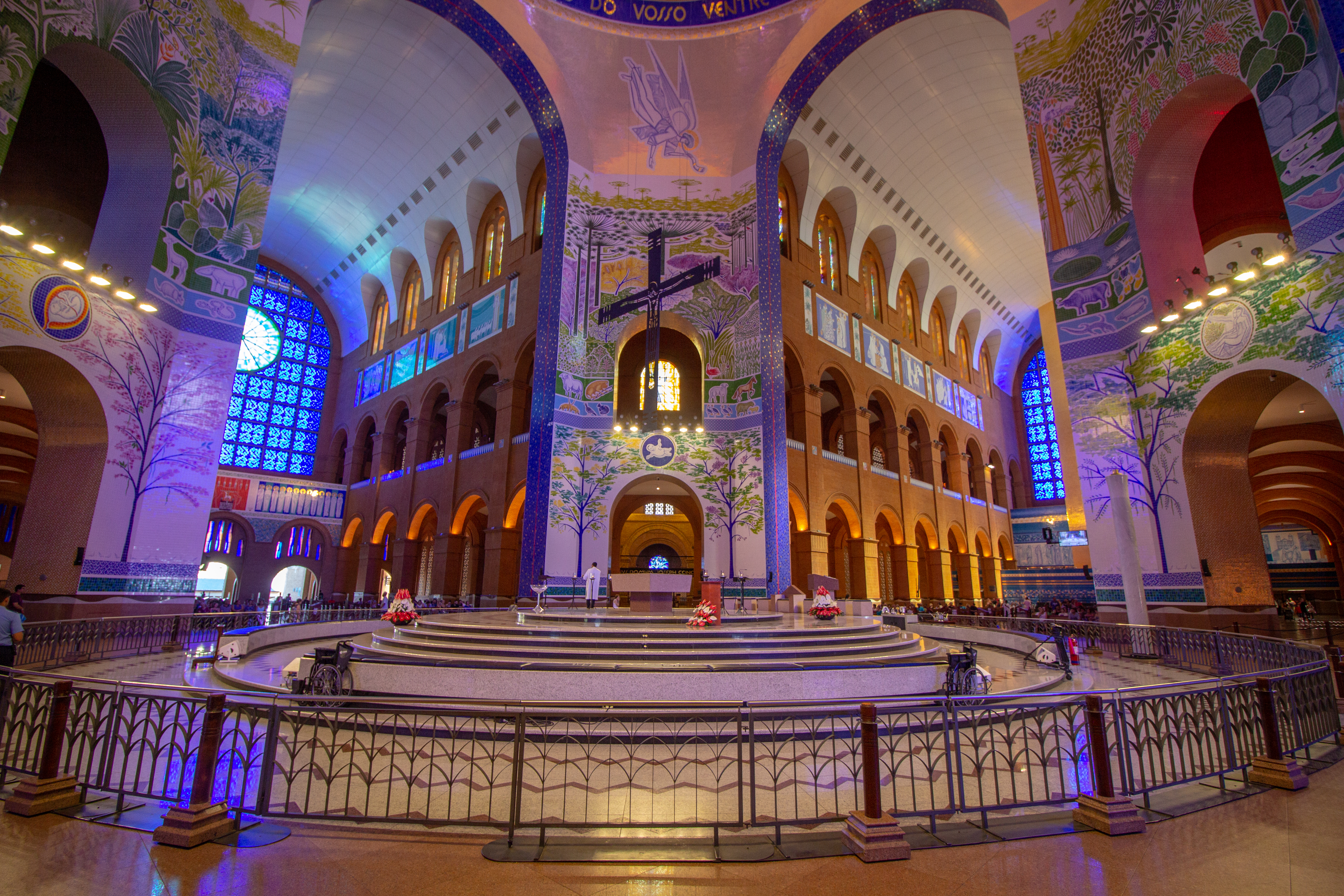 Basilica of the National Shrine of Our Lady of Aparecida, Sao Paulo, Brazil